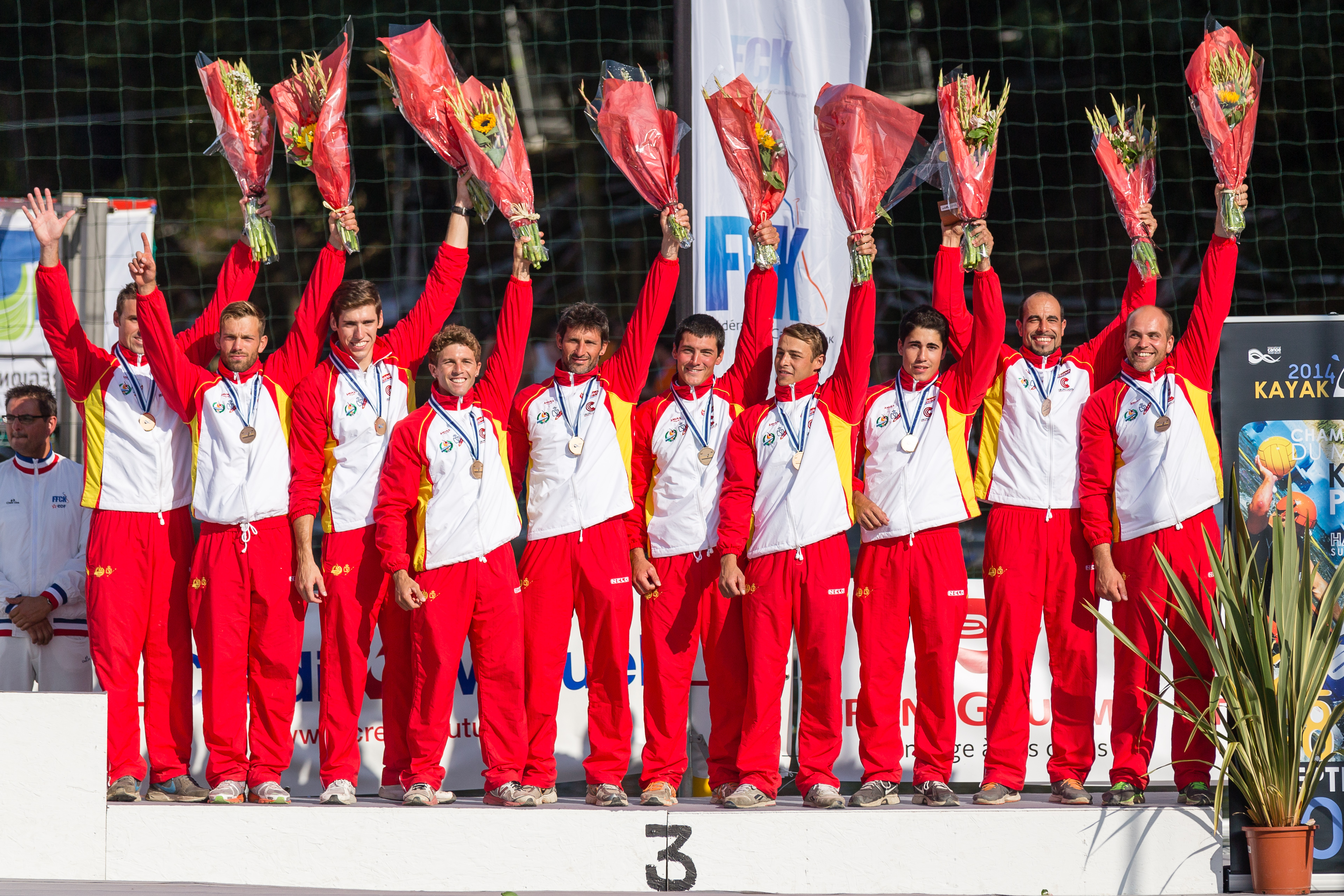 International canoe federation 2014 world championships. Spanish men team, bronze medal.